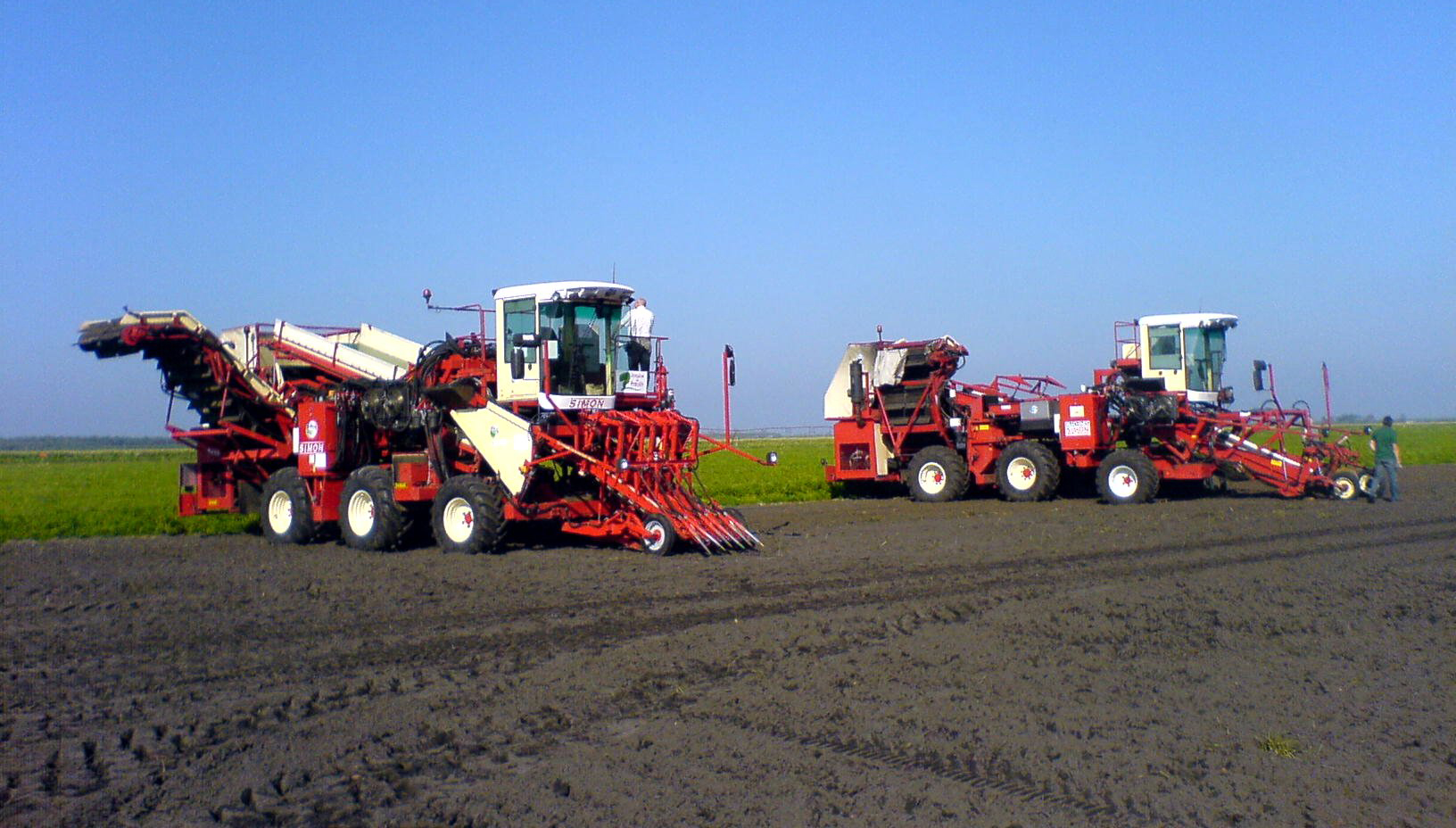 A top lift (left) and a share lift (right) carrots harvester manufactured by SIMON of France. Both are 6 wheels harvesters, and are able to lift 3 carrots' rows in a passage. Thoses harversters are self-propelled thanks to an Diesel engine, and are drived by only one person. The harvested carrots are poured during the harvest in a trailer, pulled by a tractor, next to the harvester (not visible)